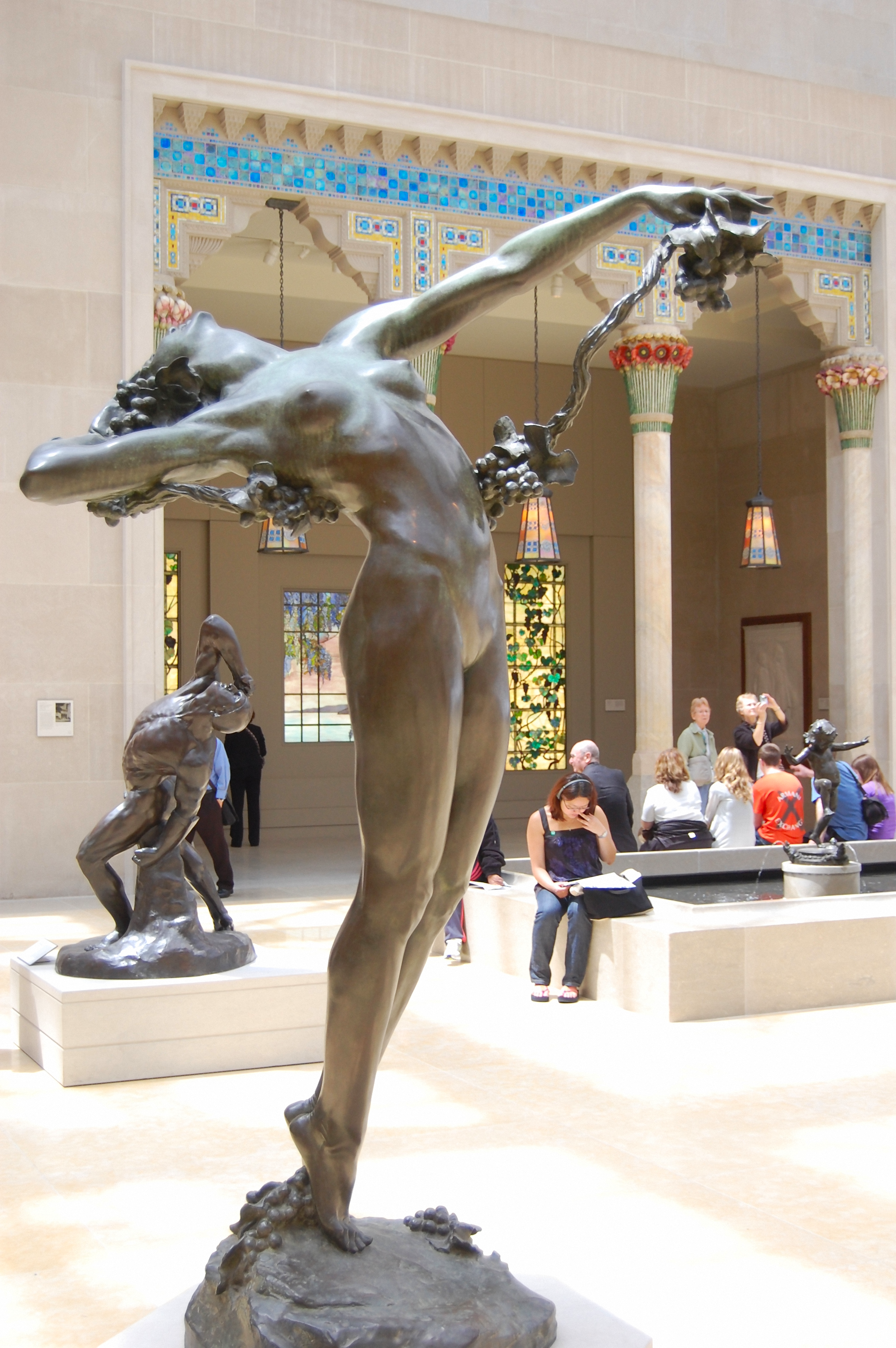 Harriet Frishmuth, The Vine (1923), Metropolitan Museum of Art, New York, June 2009 - front right. I'll have what she's having. Frishmuth produced lots of female nudes, and lived to be almost 100. I suppose it's just 21st century prurience that leads me to wonder whether she took as much of an interest in the female form in her private as well as her professional life... The statue was posed by dancer Desha Delteil, who was good at holding difficult poses for long periods. Judging by this she'd have to have been.